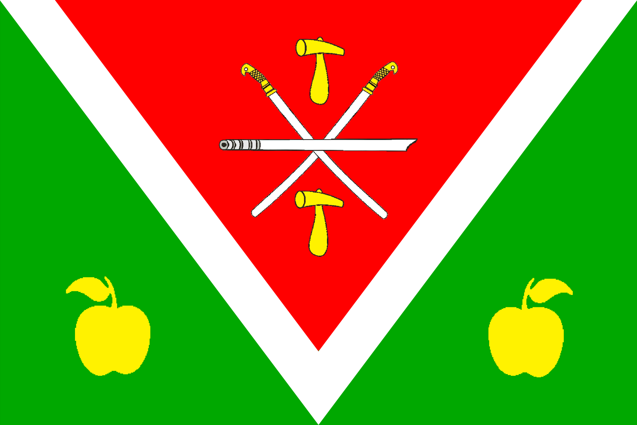 Flag of Tulsky, Adygeya, Russia